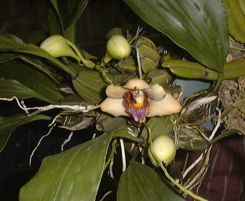 Flowering orchid Bifrenaria harrisoniae